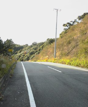 Hiyama Pass (Hiyama-toge) on the Mie Prefectural Road Route 112 in Shima City